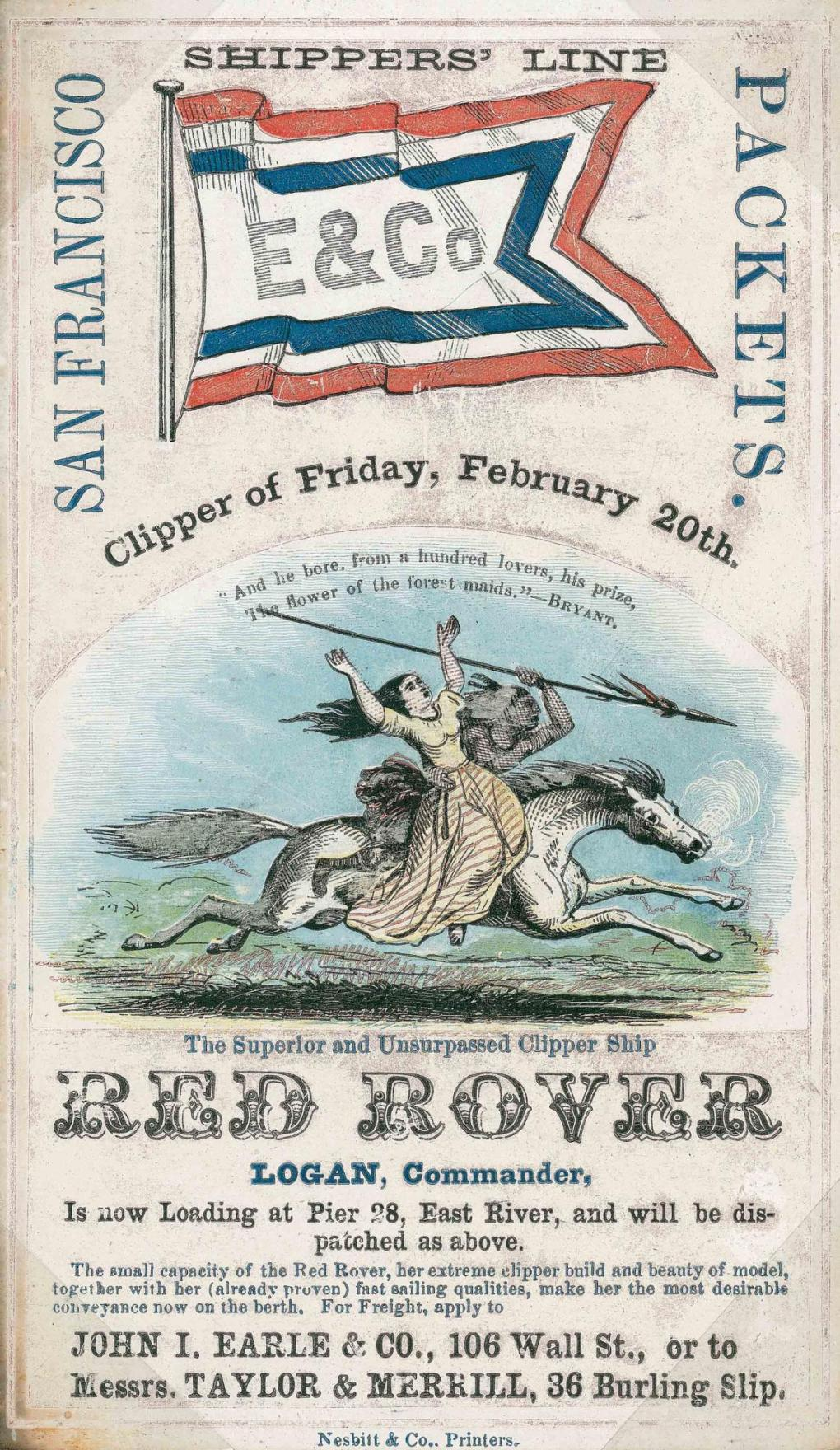 RED ROVER Clipper ship sailing card. Logan, Commander.